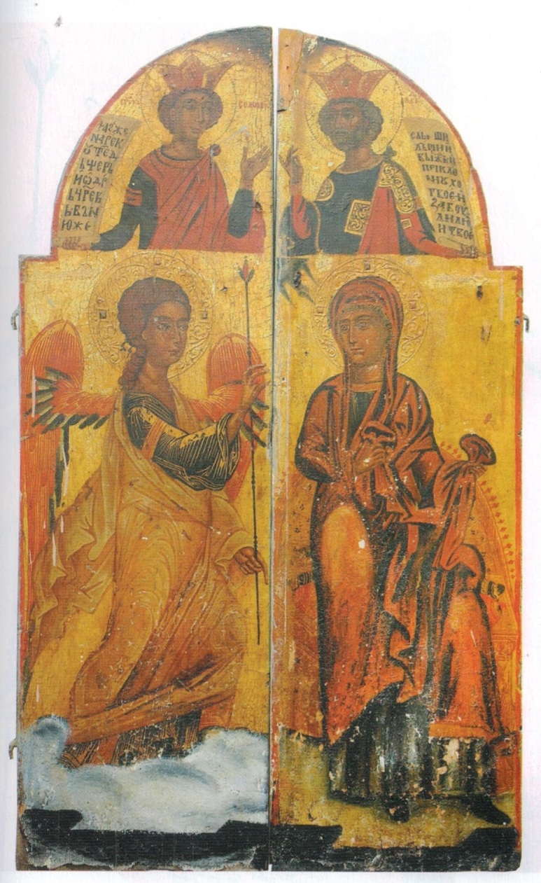 Dolno Srabtsi Royal Doors in Archangel Michael Church, 16th Century by Onufri Argitis